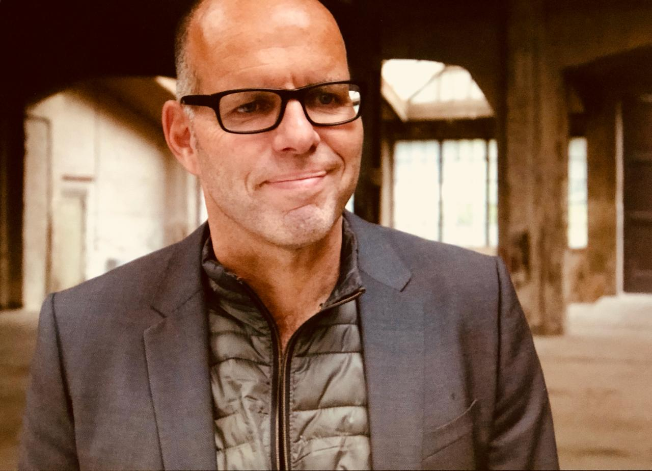 Am Set von "Crossover"